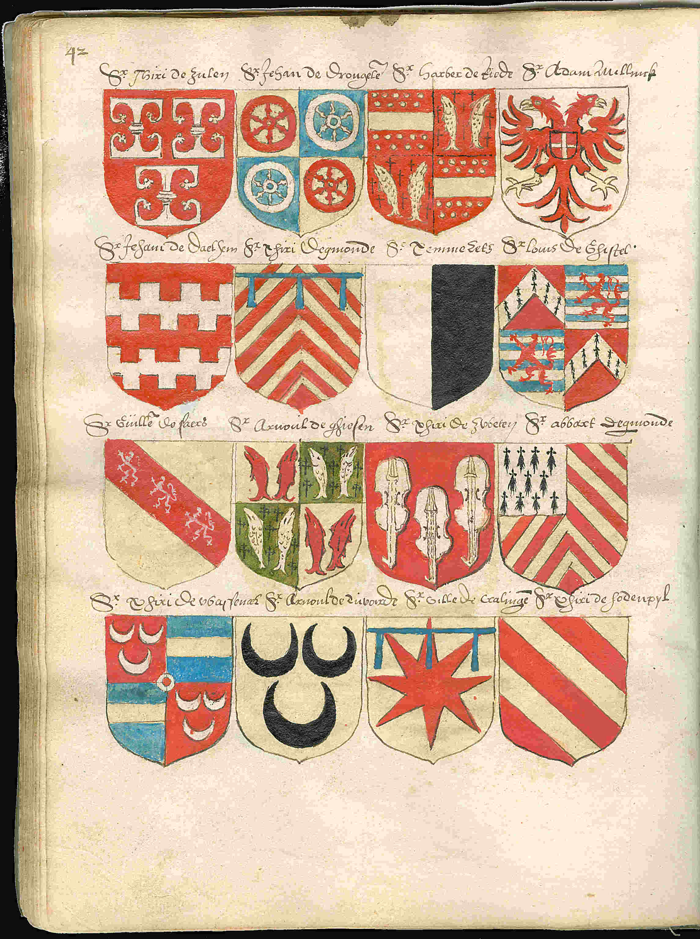 Page 42 from a copy of the Beyeren armorial / Wapenboek Beyeren from ca. 1600. The original Beyeren armorial from 1405 can be viewed at the website of the KB